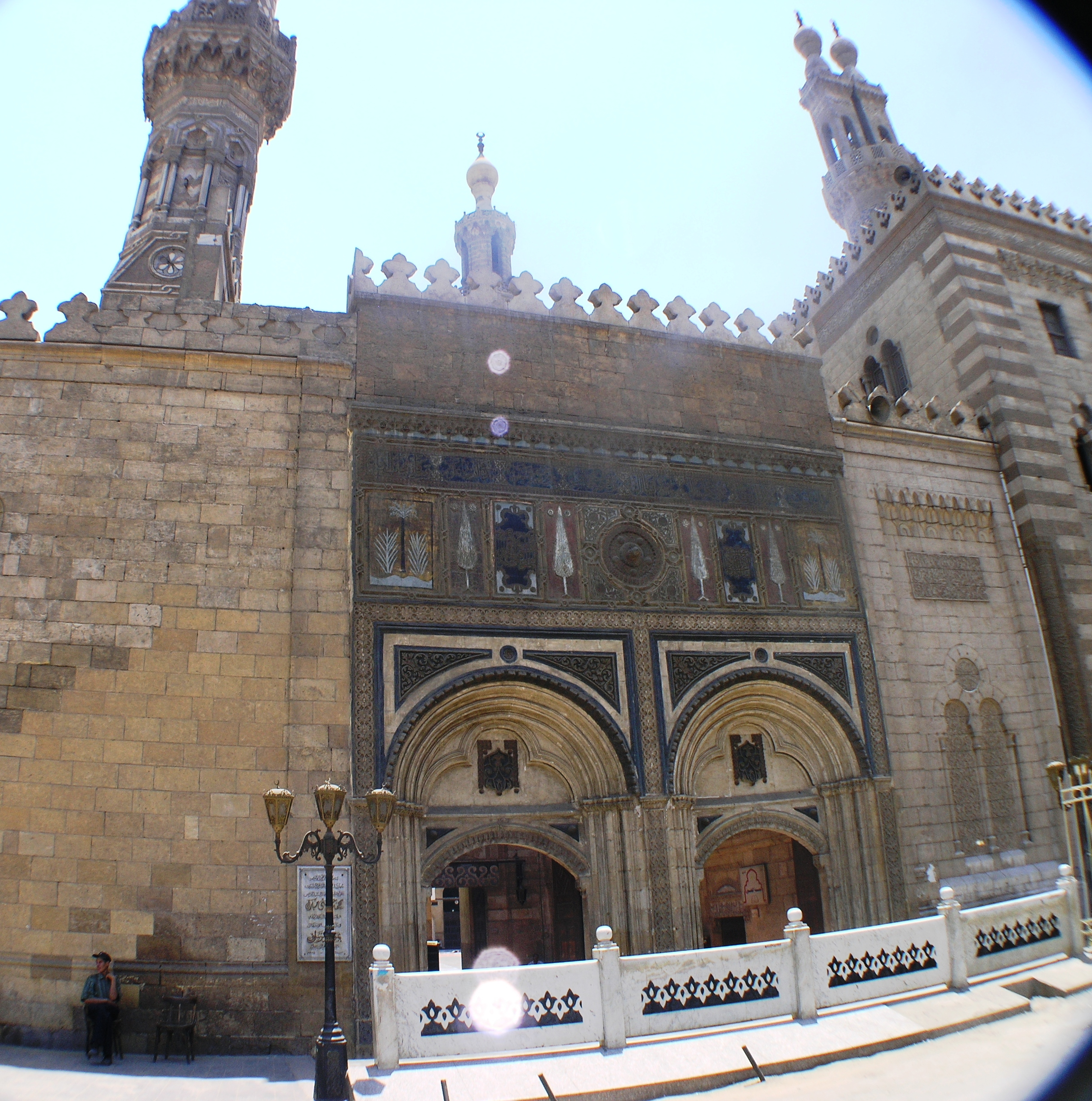 Cairo - Islamic district - Al Azhar Mosque and University entrance